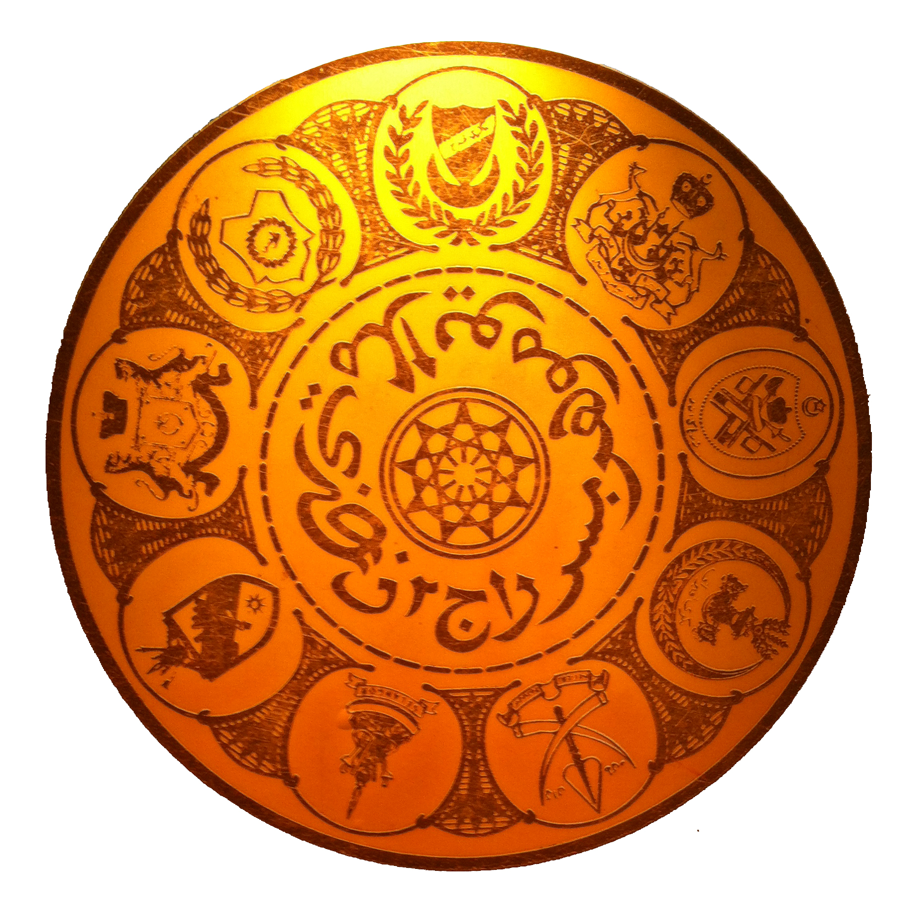 The seal containing the coat of arms of nine Malay states, and is inscribed with the word 'Great Seal of the Malay Rulers' in Jawi script, displayed in the Royal Museum, Kuala Lumpur.